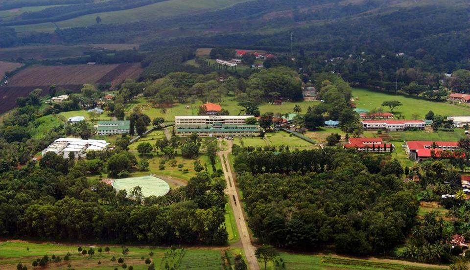 Mountain View College Aerial by RANValera Photography